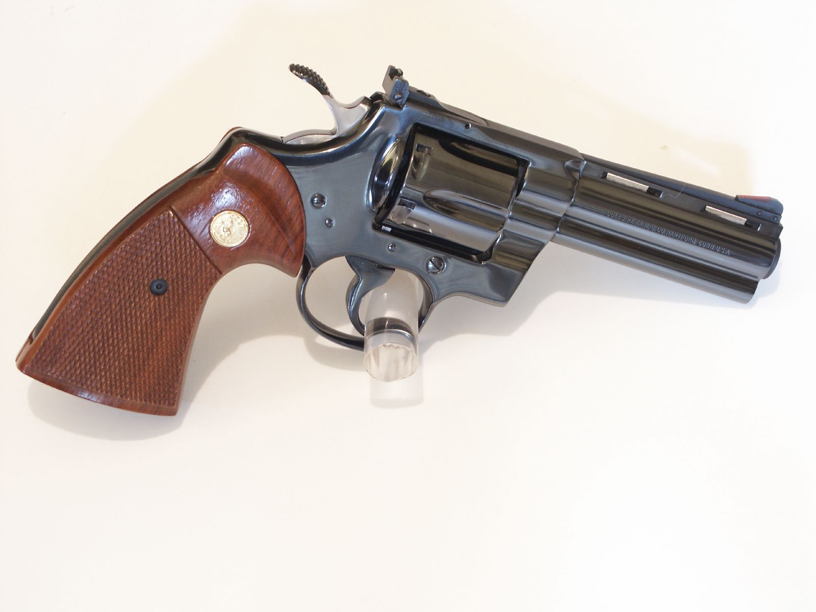 Colt Python